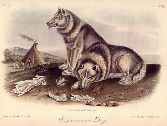 An illustration of a Canadian Eskimo Dog from The Quadrupeds of North America by John James Audubon and John Bachman, originally published in three volumes (1845-1848)